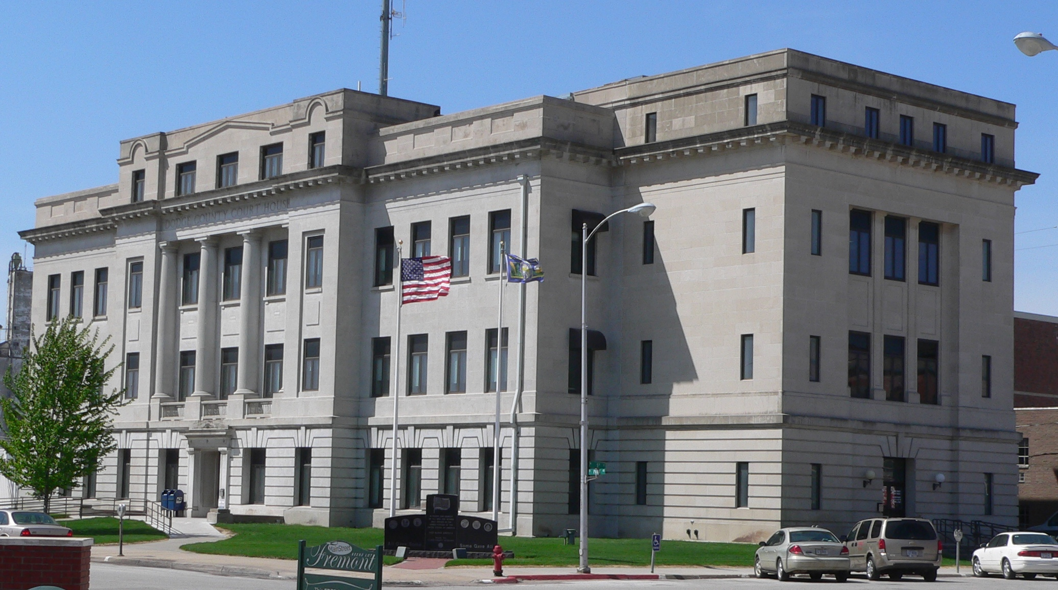 Dodge County Courthouse in Fremont, Nebraska; seen from the northeast. The Classical Revival building was constructed in 1917. It is listed in the National Register of Historic Places.